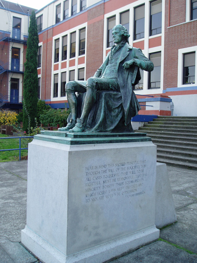 Thomas Jefferson statue in front of Jefferson High School, in Portland, Oregon